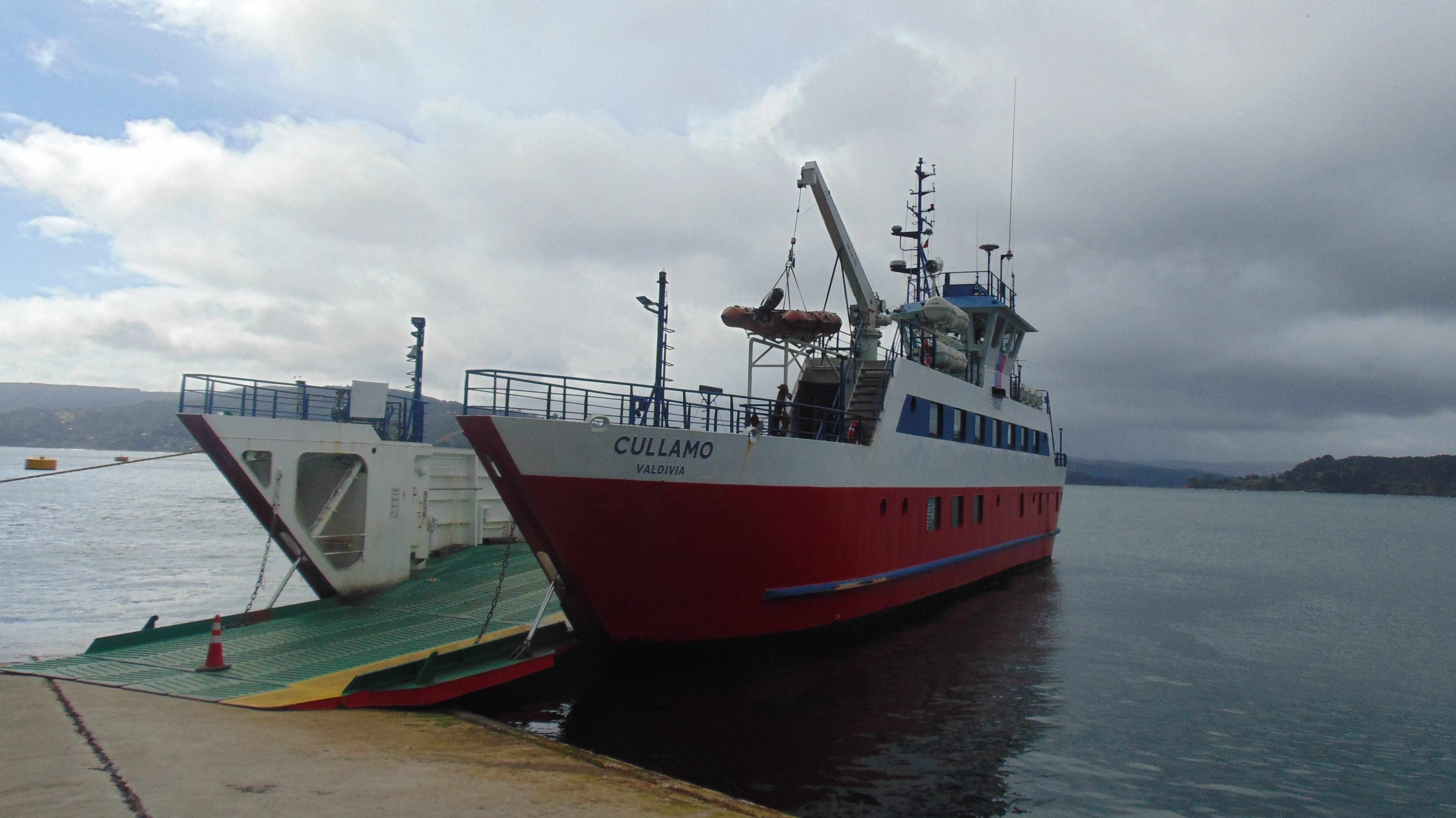 Cullamo ferry in Corral Ferry Pier